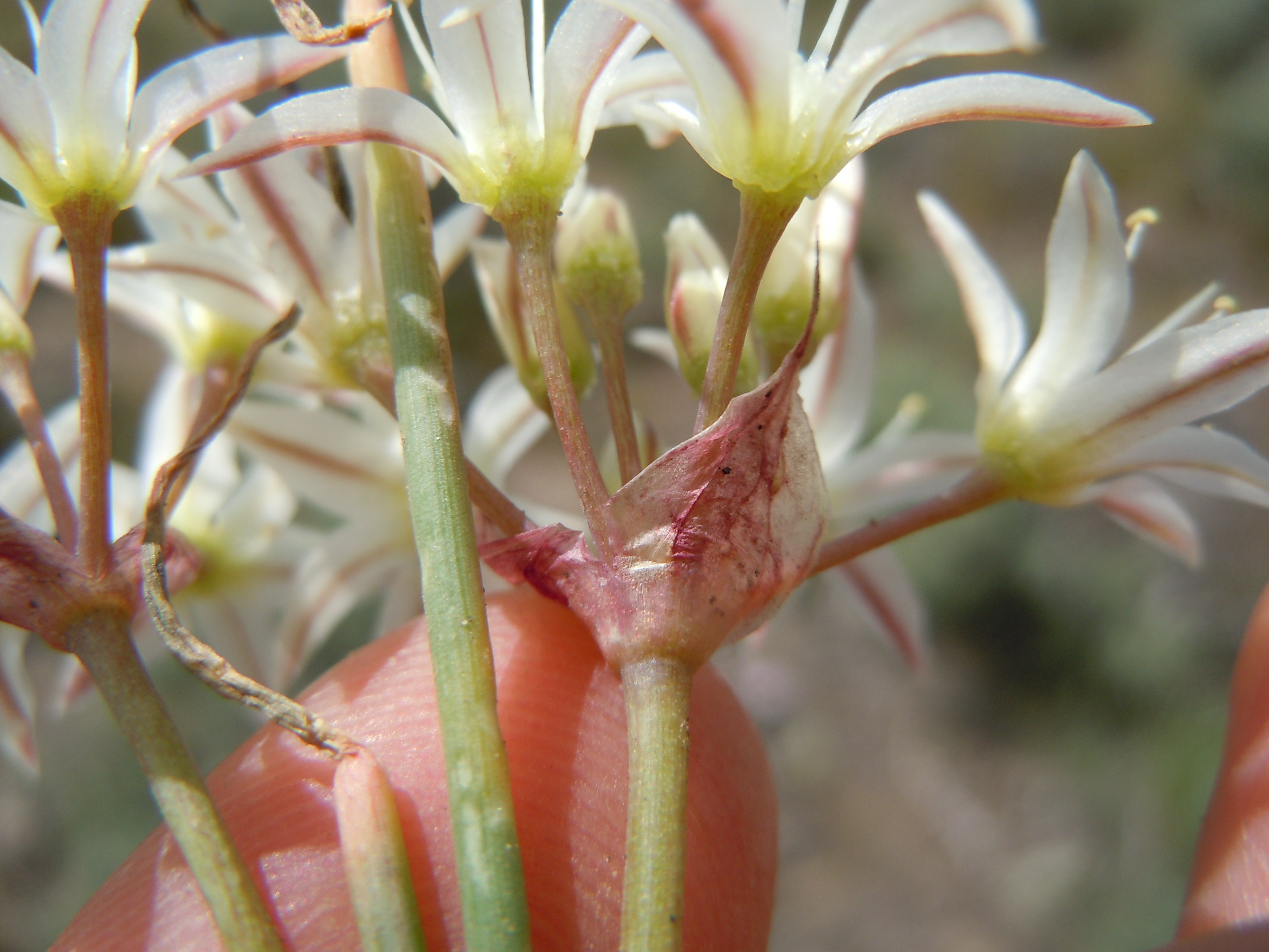 The Nevada onion occurs occasionally in the sagebrush steppe on the lowlands of the INL administered lands.